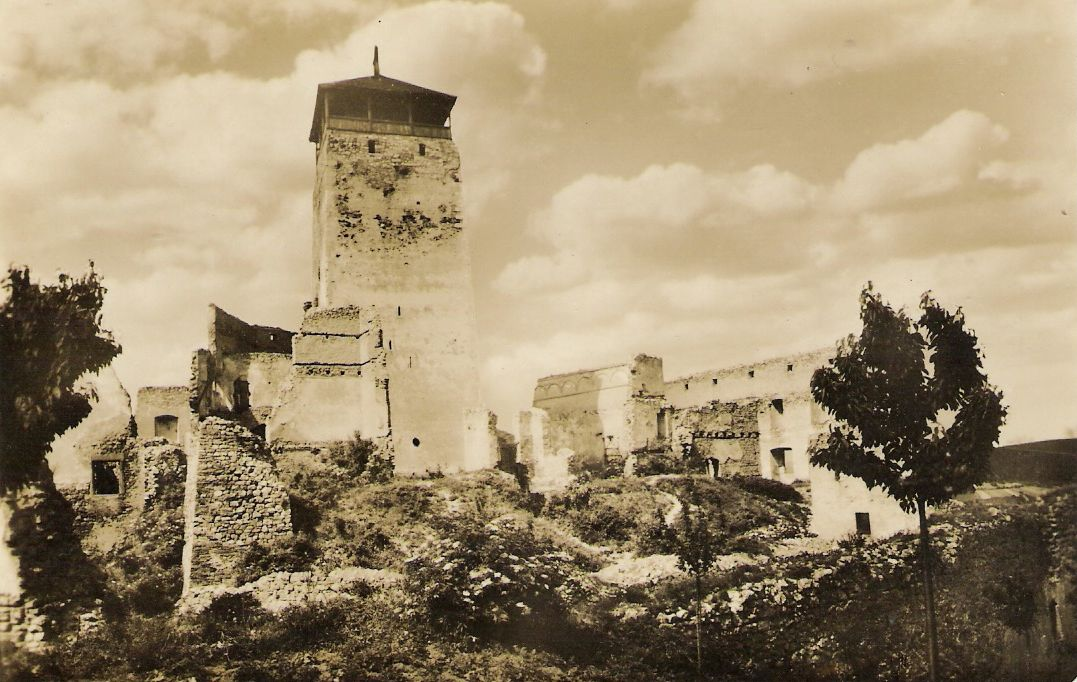 The view of Trenčín Castle (Slovakia) in about 1950.